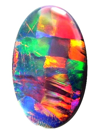 A harlequin opal